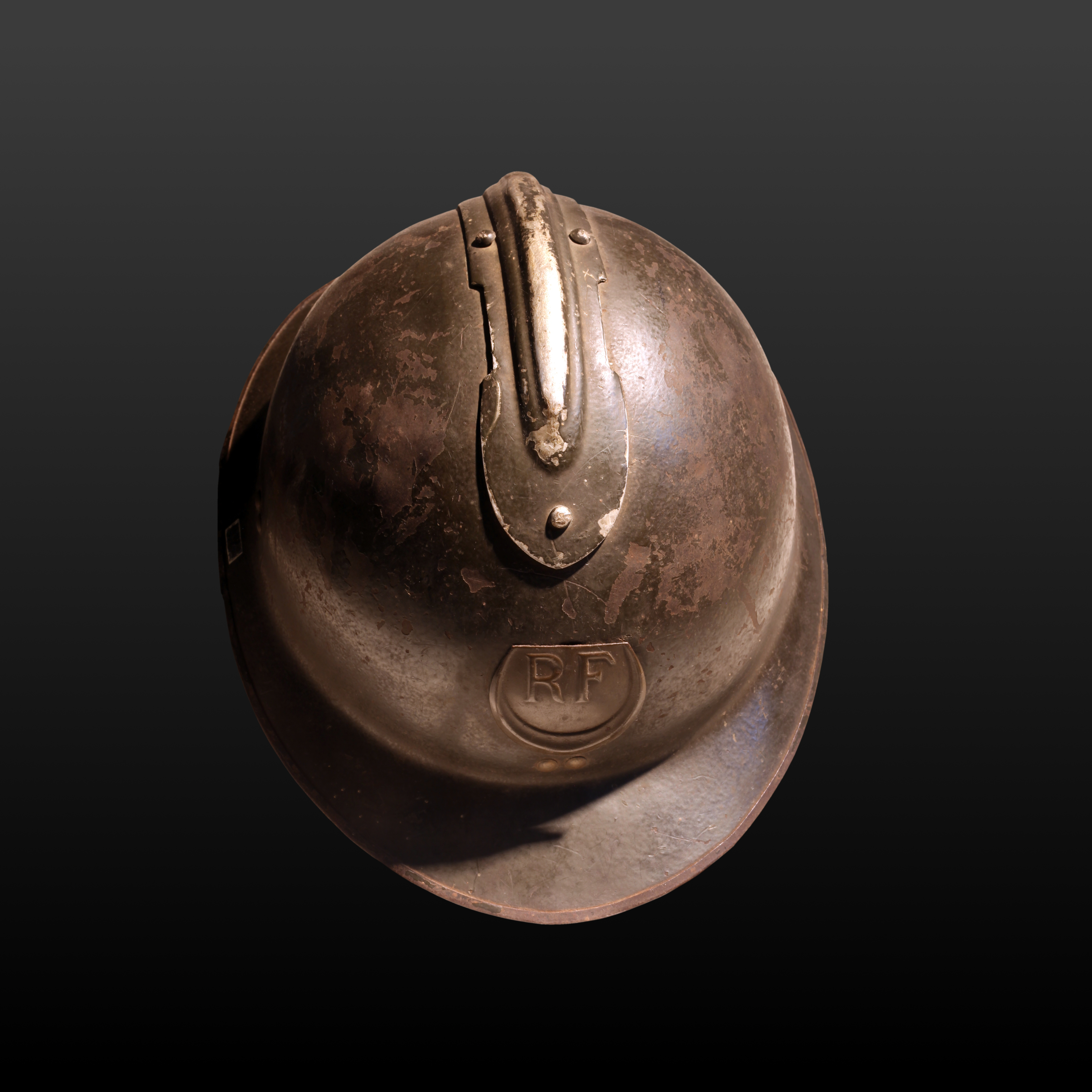 Mustard Adrian helmet of the African troops of the French Army, model 1915.